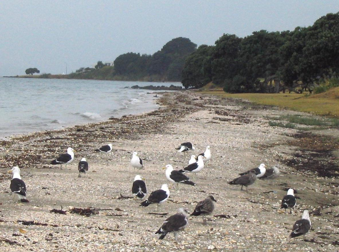 Southern Black-back Gulls (Larus dominicanus) Self-made Feb 2008 Omana Regional Park New Zealand David Burgess